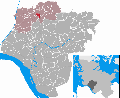 This map shows the area of the municipality Hadenfeld in the Kreis (district) Steinburg, Schleswig-Holstein, Germany.